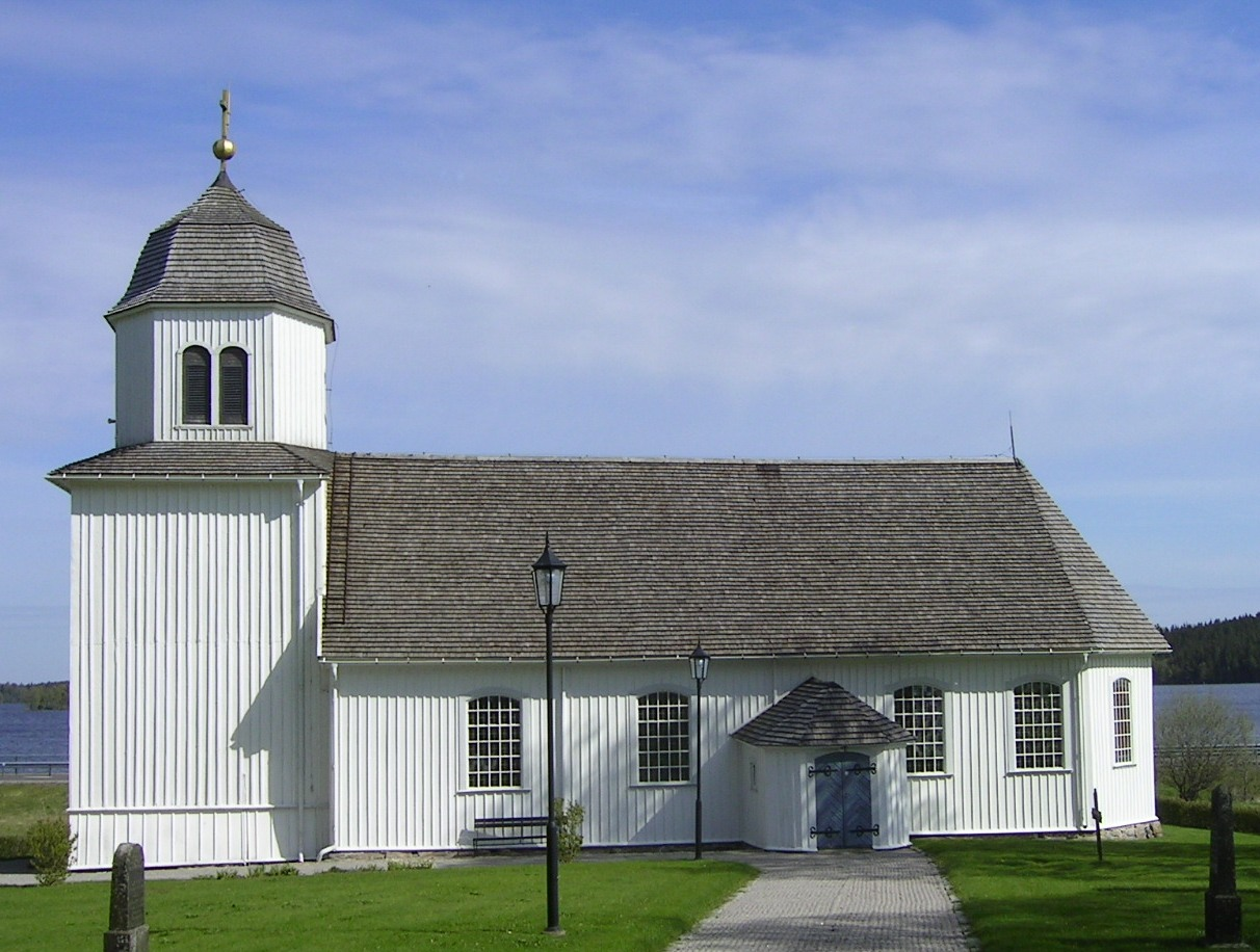 The church of Strängsered in the province of Västergötland, Sweden